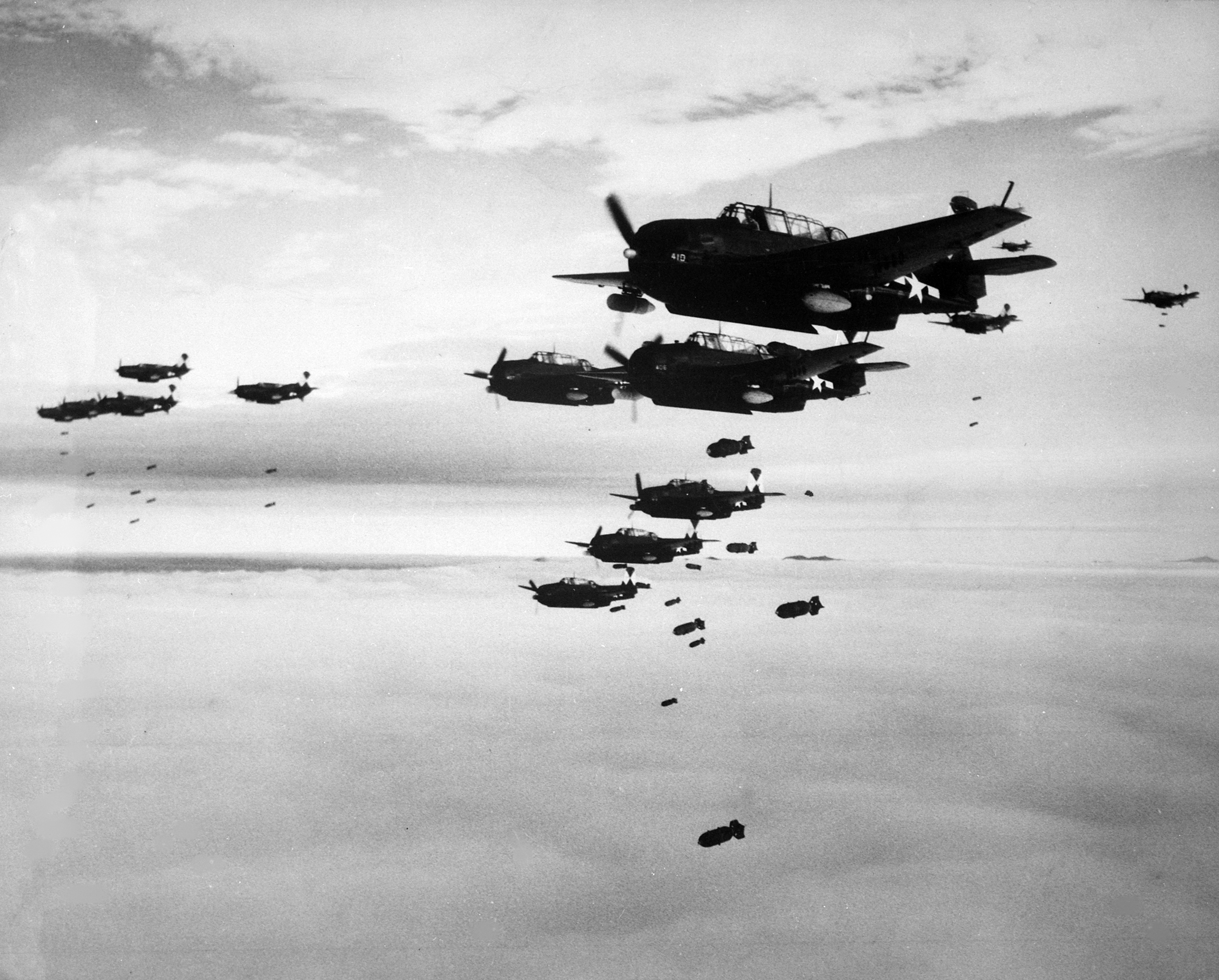 U.S. Navy Grumman TBM-3 Avengers and Curtiss SB2C Helldivers assigned to Carrier Air Group 83 (CVG-83) aboard the aircraft carrier USS Essex (CV-9) dropping bombs on Hakodate, Japan, in July 1945.